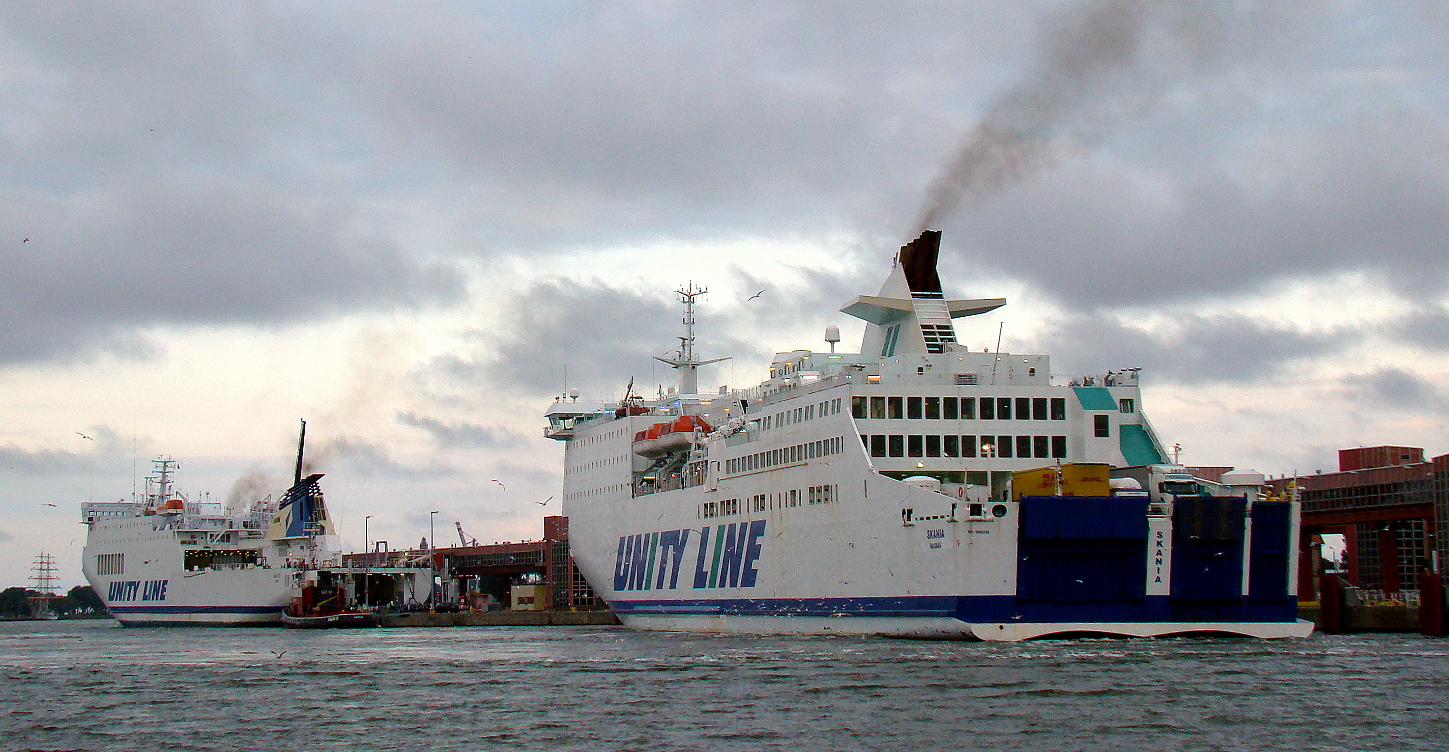 MF Galileusz and MF Skania in Ferry Terminal Swinoujscie